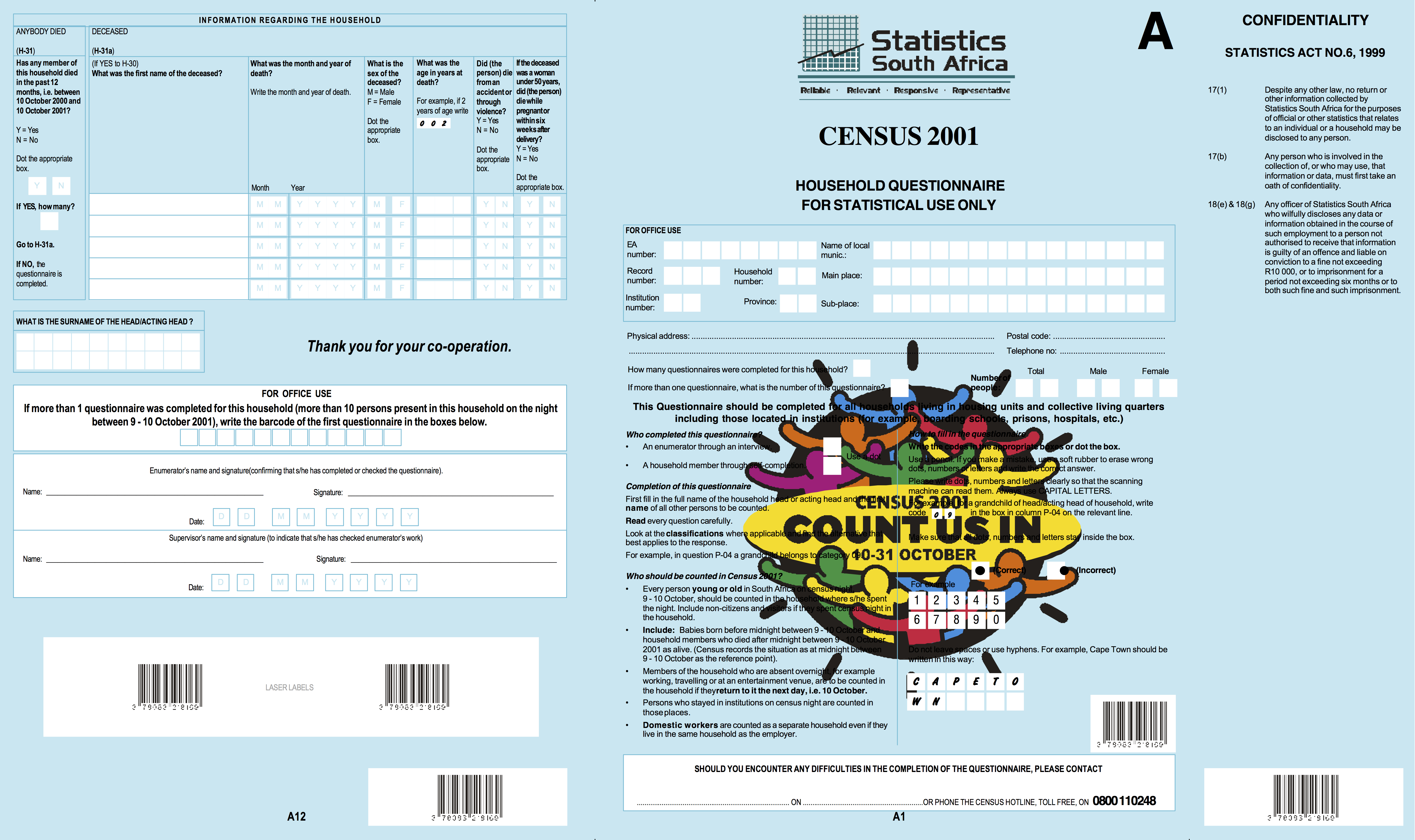 This is the cover page of the 2001 South African National Census.